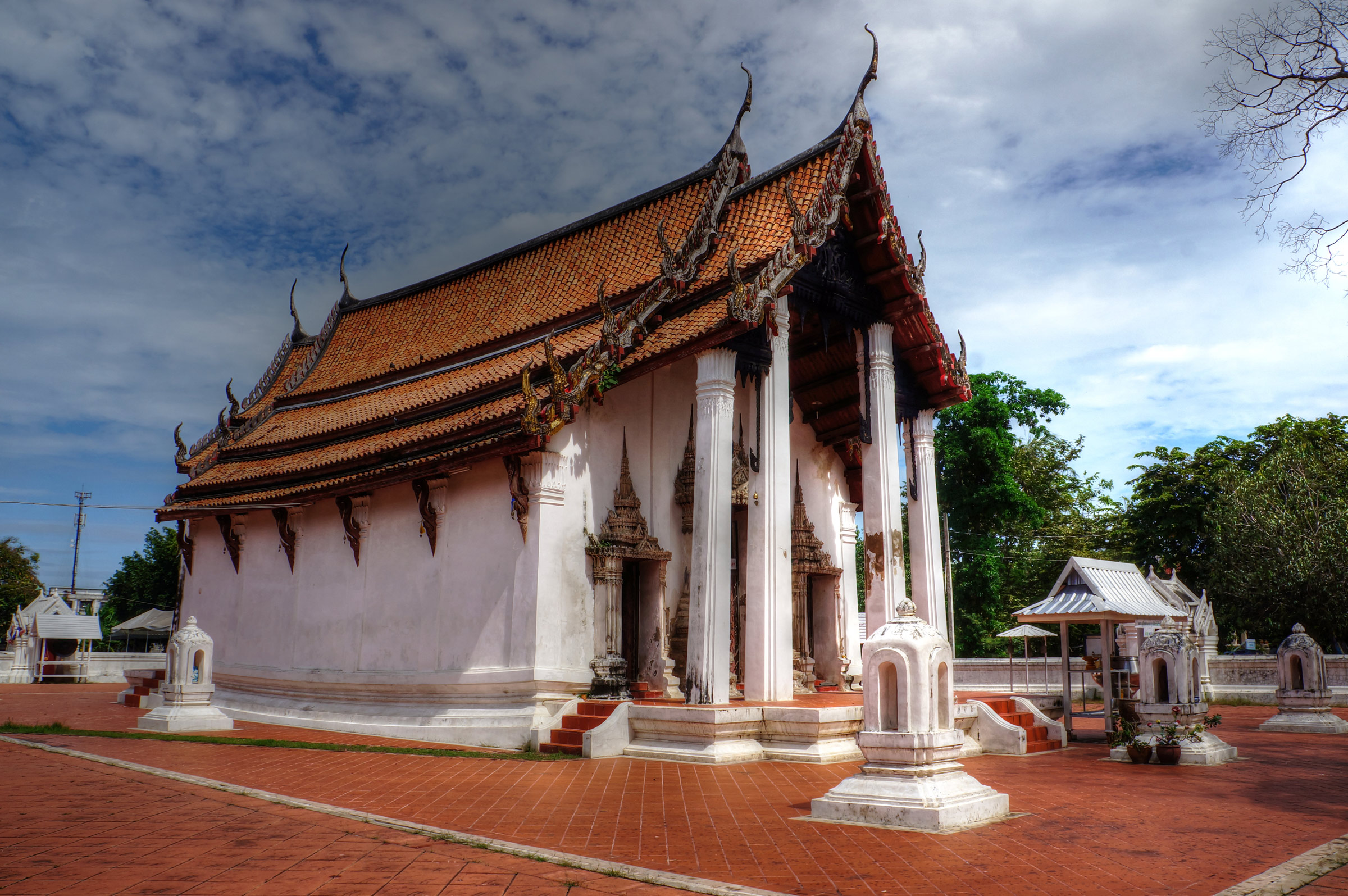 The ubosot of Wat Prasat